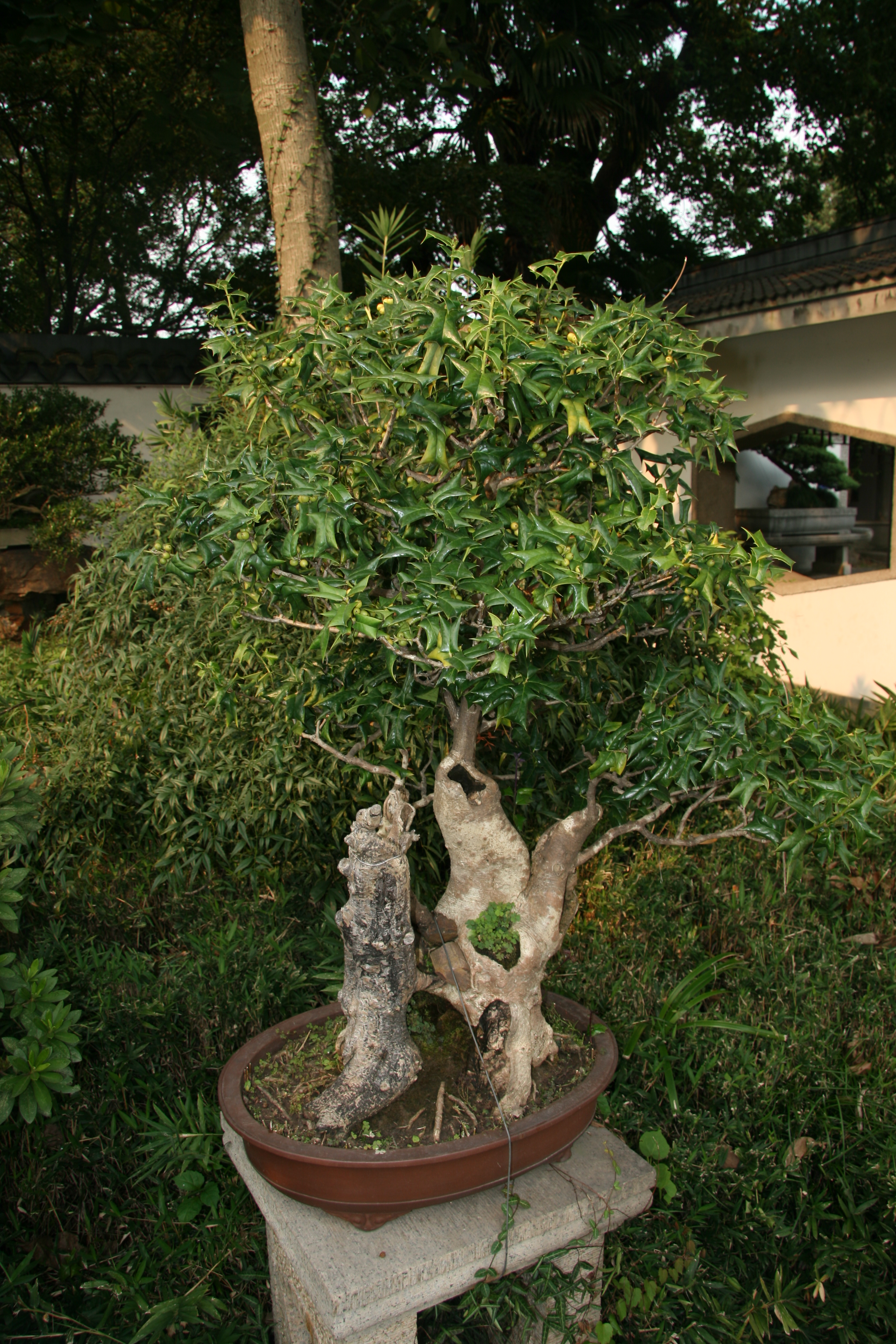 Ilex cornuta (Chinese holly) penjing, penjing garden, Shanghai Botanical Garden